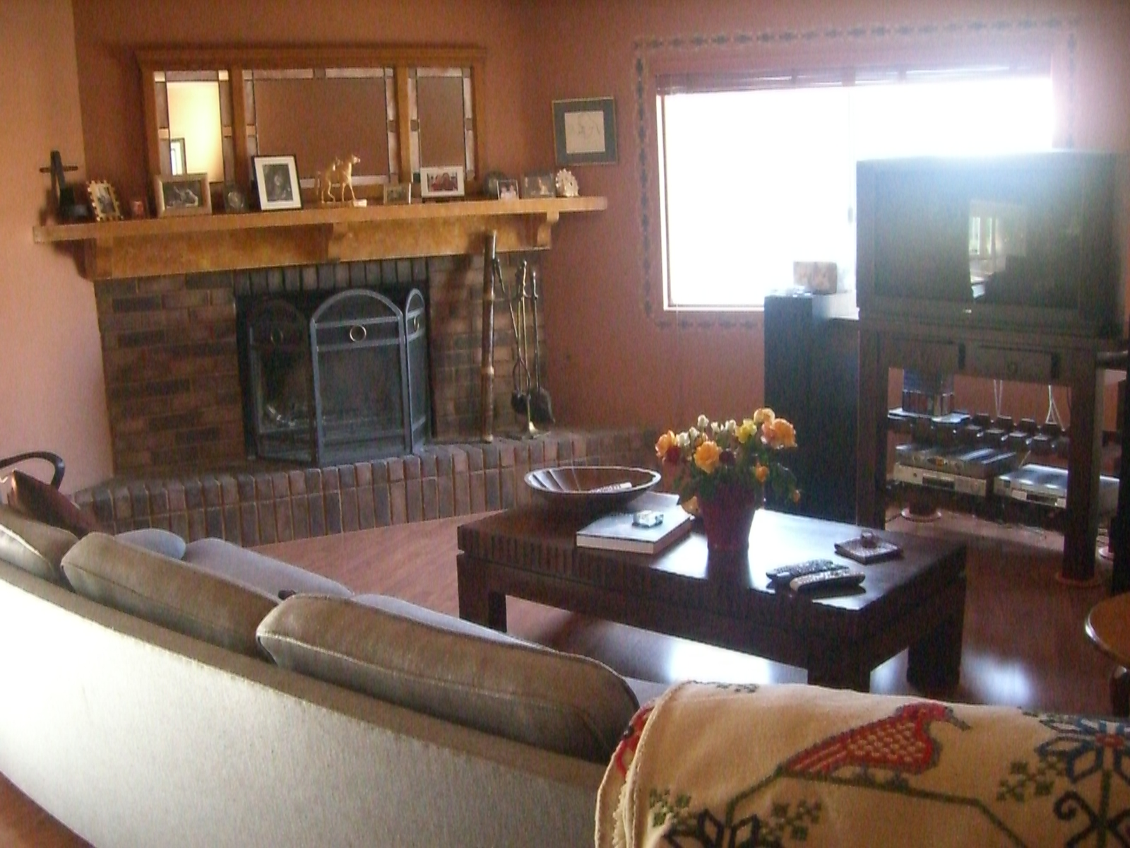 A den or family room in Camarillo, California, USA with mission-style furhishings and a brick fireplace.